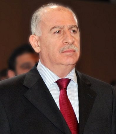 Osama El Nujaifi